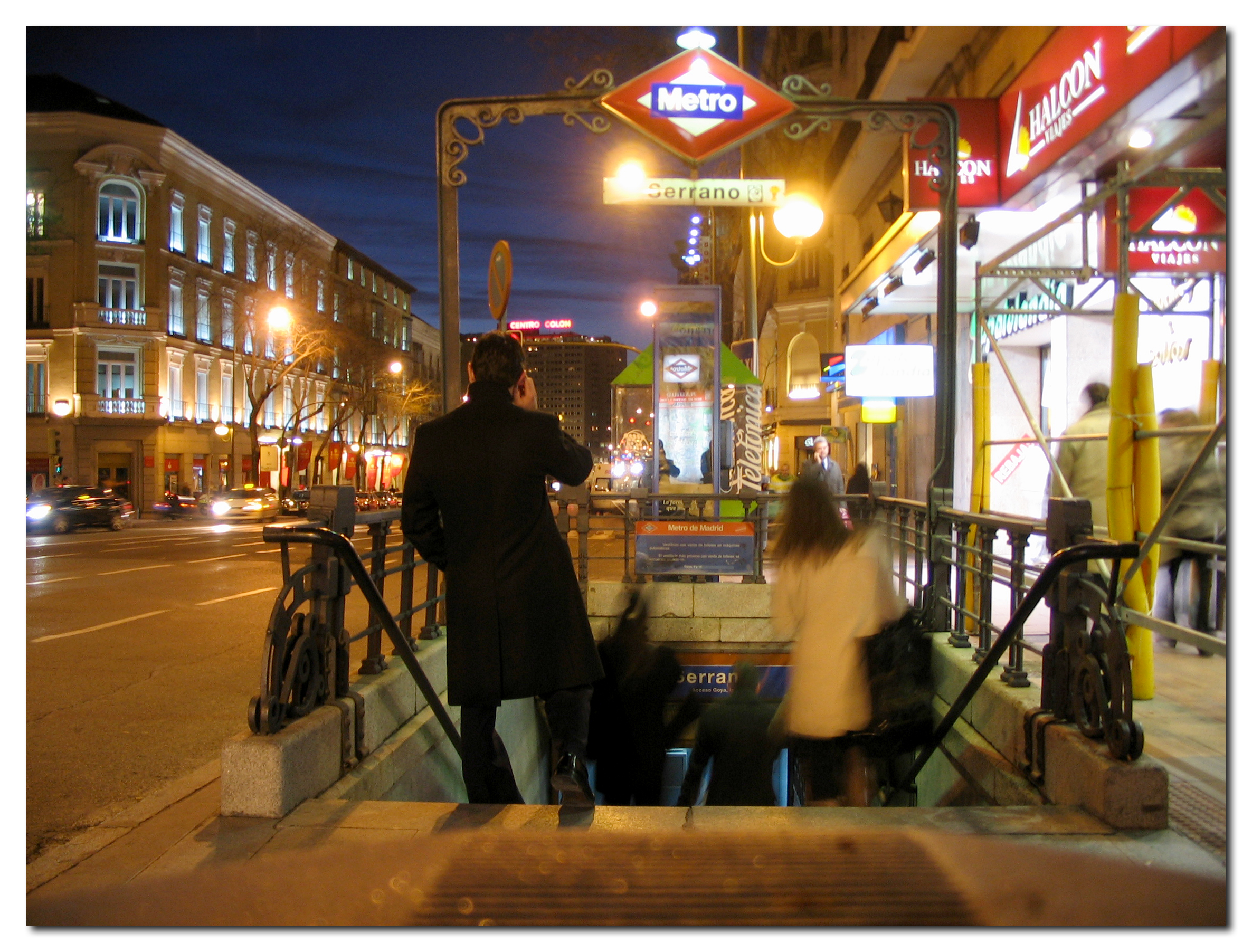 Serrano underground station, Madrid (Spain).